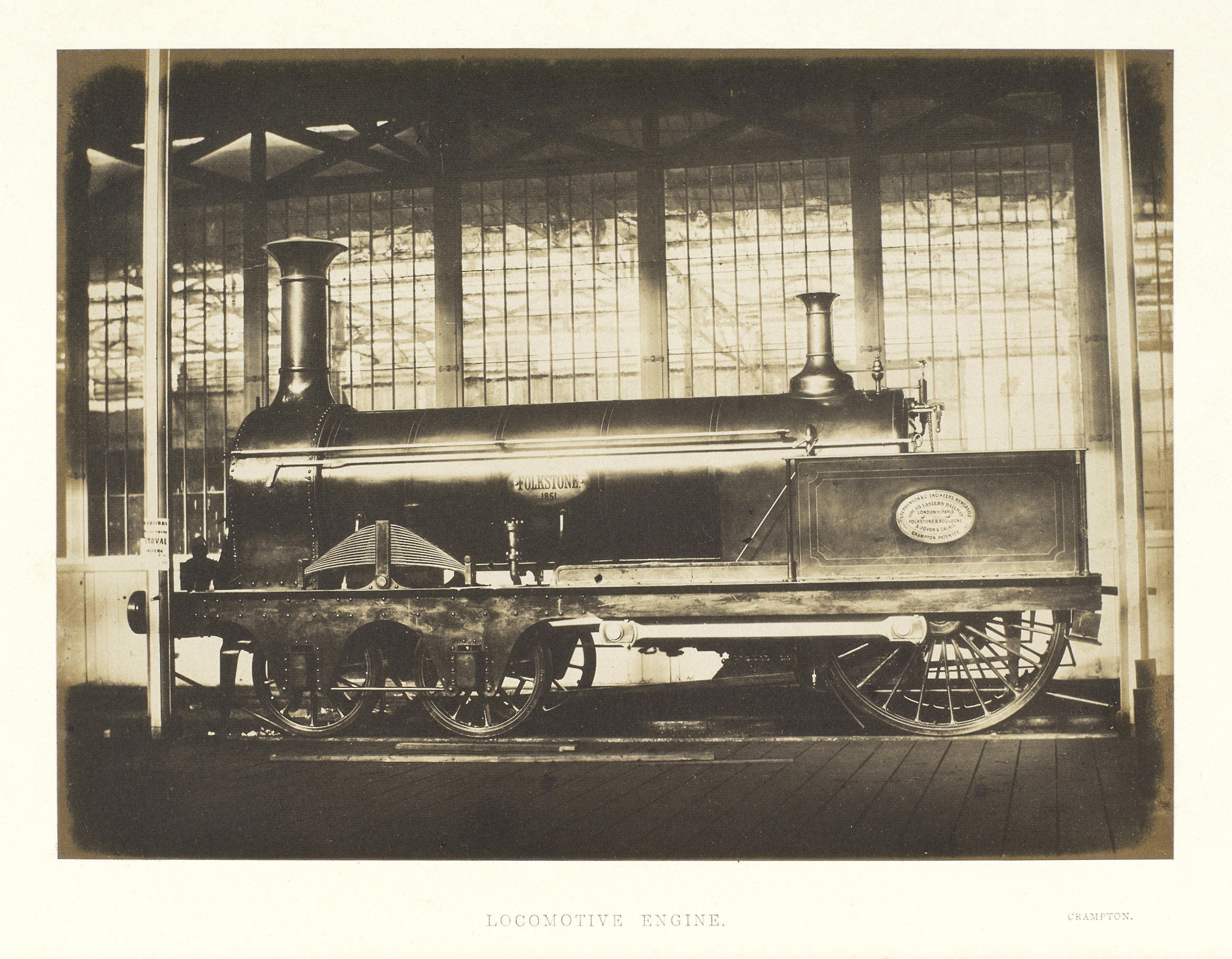 Mounted Calotype depicting South Eastern Railway 4-2-0 Crampton locomotive no 136 “Folkstone” at the Great Exhibition of 1851. From Henry Fox Talbot's presentation report, Spicer Brothers, Wholesale Stationers, W. Clowes & Sons, Printers, 1852.